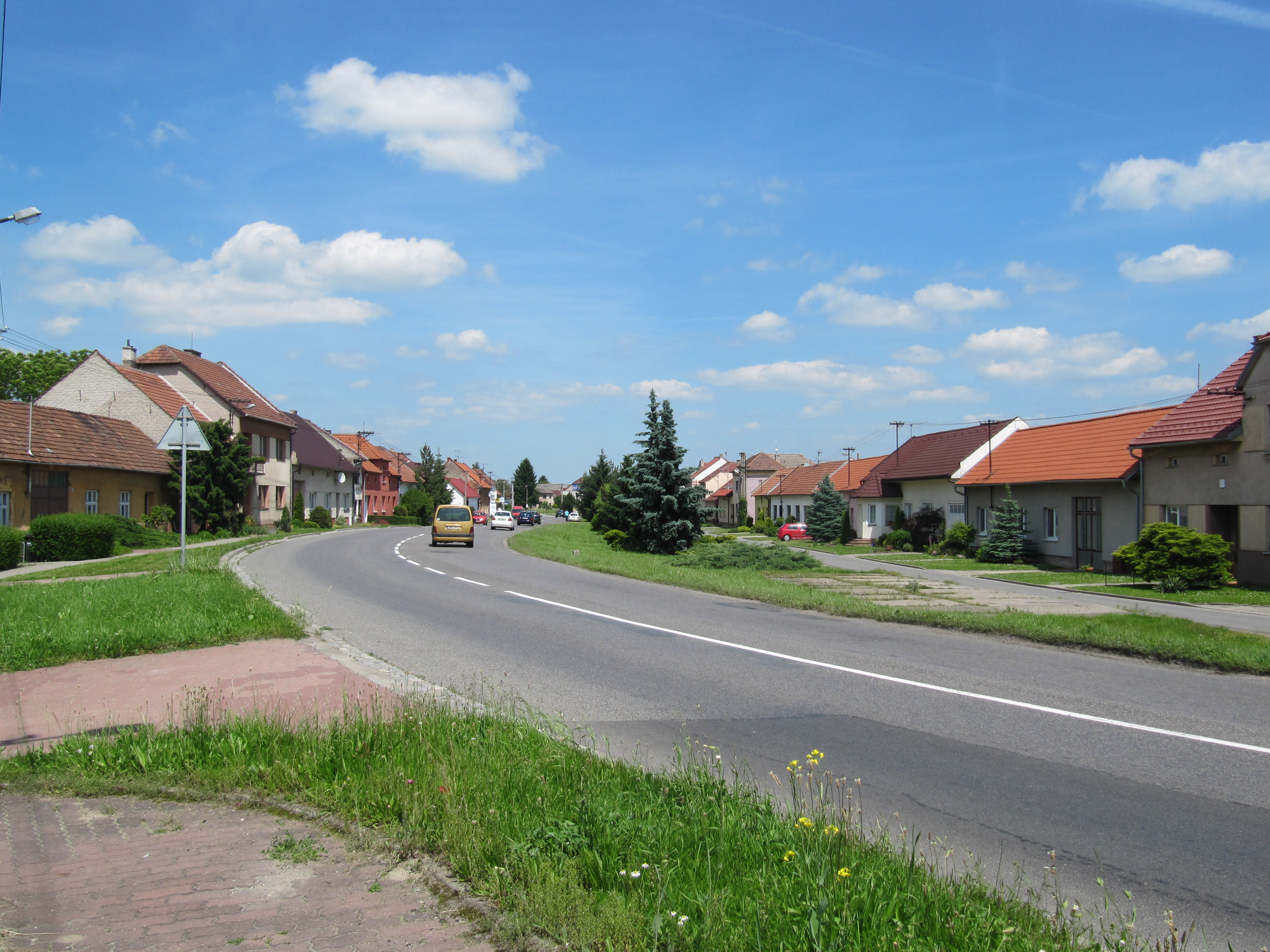 Babice, road E50